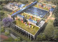 Image of the future building